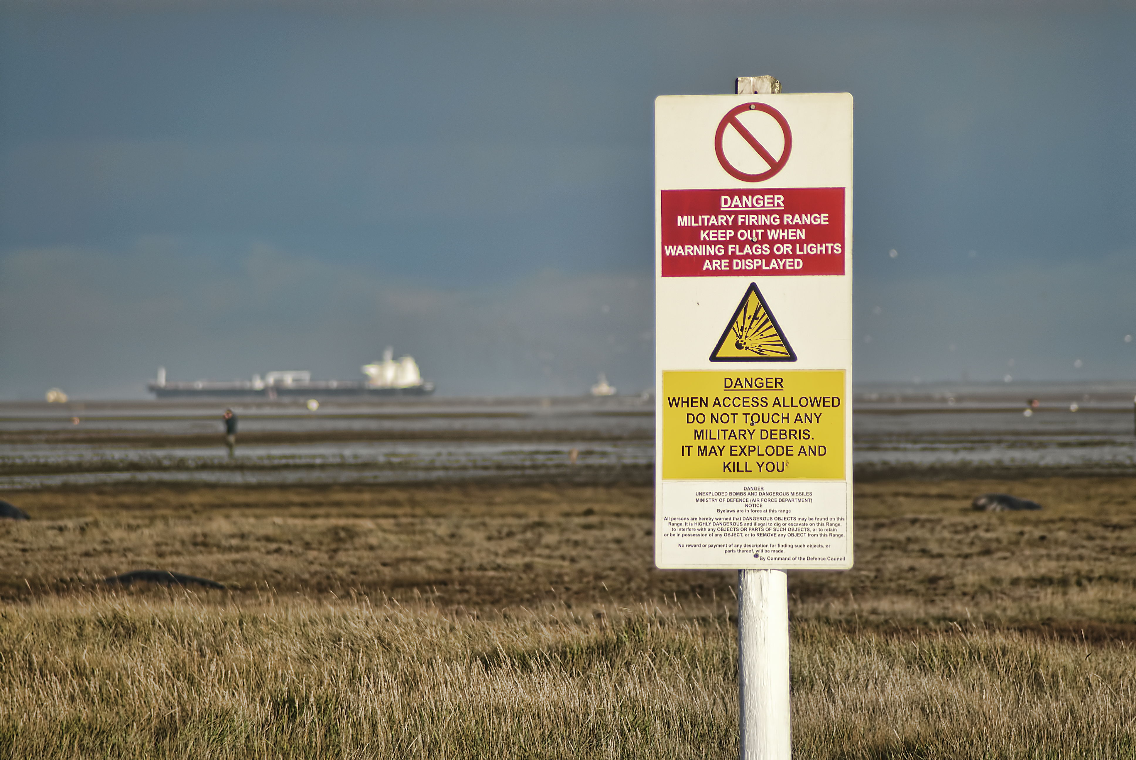 Donna Nook From Wikipedia, the free encyclopedia. Donna Nook is a bombing range on the coast of Lincolnshire, England, north of the village of North Somercotes. The area is salt marsh, and is used by the numerous Royal Air Force bases in Lincolnshire for bombing practice; known as RAF Donna Nook. The resident wildlife fare surprisingly well, and seem to have become accustomed to aircraft bombing near them on a regular basis. One particular group is the Grey Seal population, which is visited by around 43,000 people a year (2006), and the seals return to breed during October to December every year. Media coverage of Donna Nook has led to this big increase in visitor numbers. The coastline is managed by the Lincolnshire Wildlife Trust as a nature reserve. In 2007, the seal colony had its best breeding season on record, with about 1,194 pups born from the 3,500 resident grey seal colony. A controversial double wooden fence has been erected in 2007 to try to stop people touching the new born pups. If the mother seal detects human or dog scent on its pup, it may be abandoned